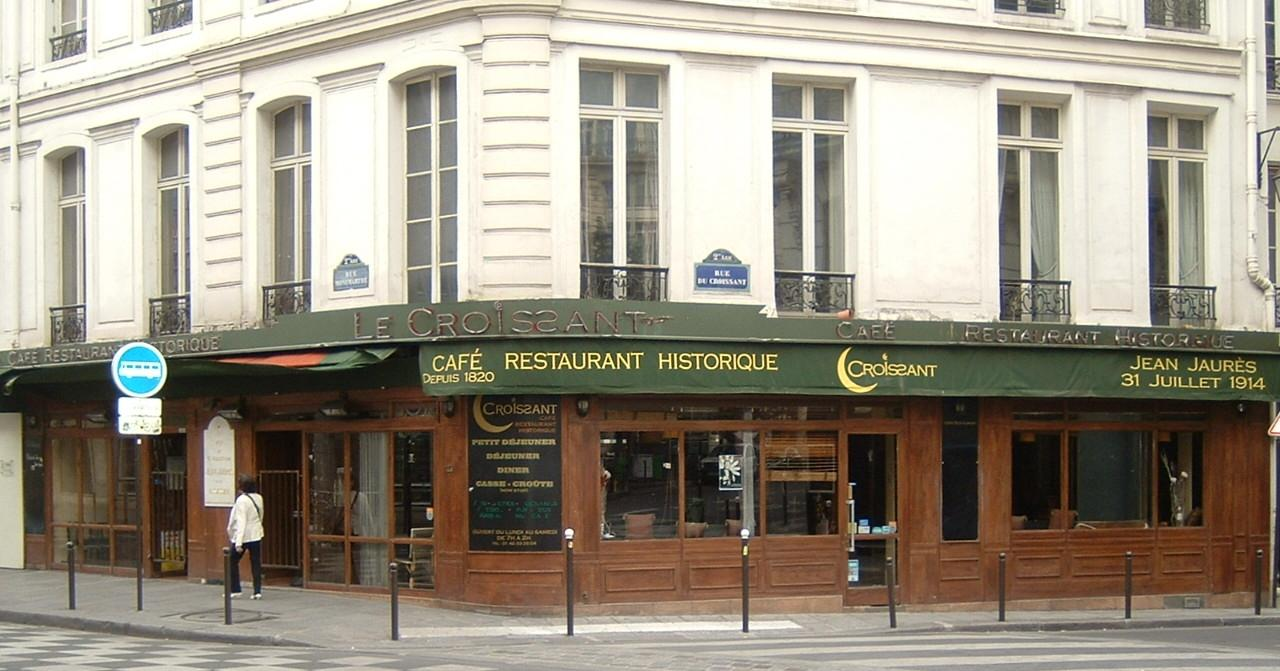 Front view of the café "Croissant" of Paris (146 rue Montmartre, 2nd arr.), where Jean Jaurès was killed on July 31, 1914.